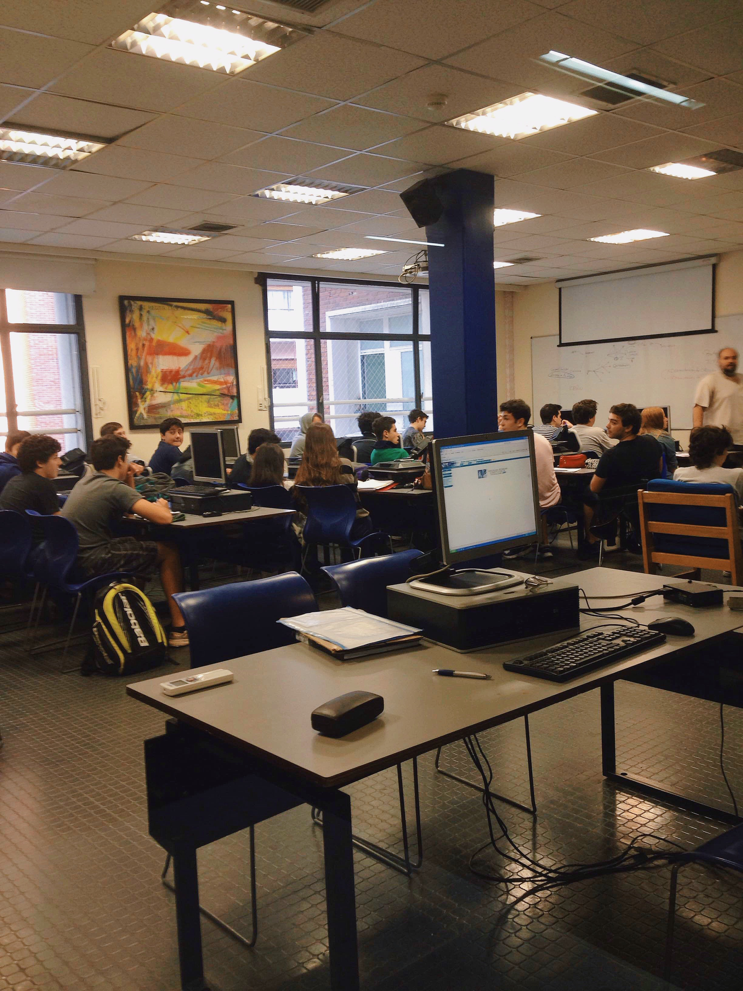 Aula (Orientacion TIC) de Escuelas Tecnicas ORT, sede Belgrano. Bs As, Argentina.